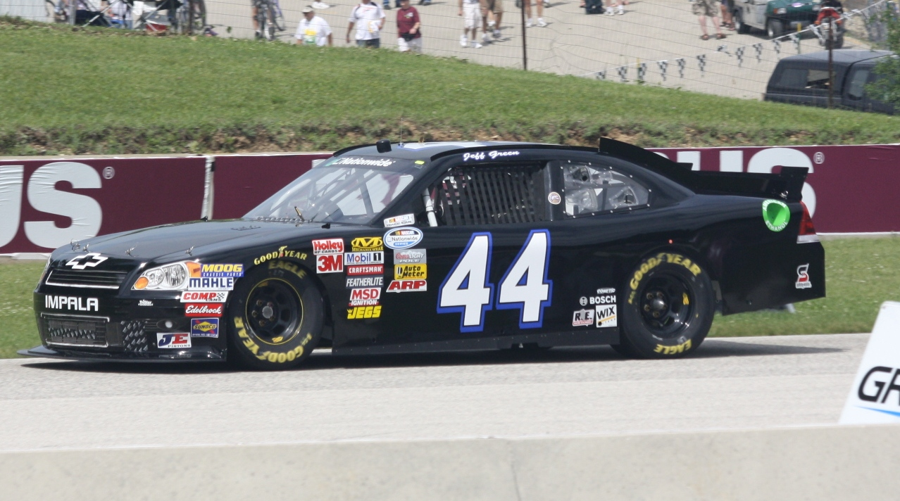 NASCAR driver Jeff Green (NASCAR) racing his stock car at Road America at the 2011 Bucyros 200 Nationwide Series race.